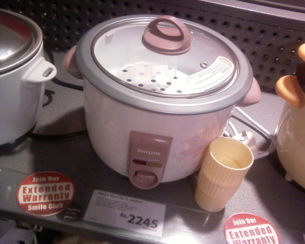 Philips electric rice cooker HD4711 in showroom.